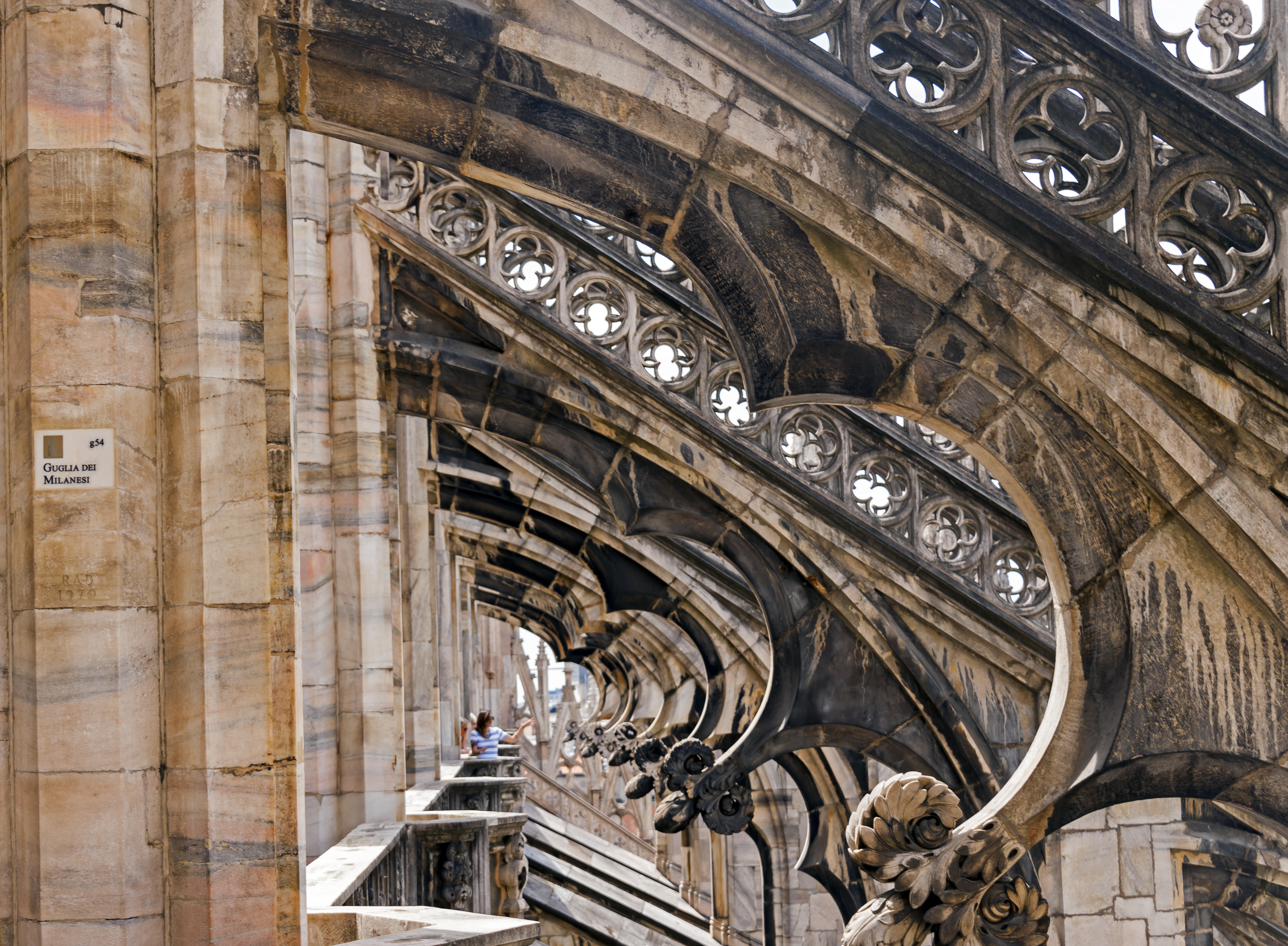 Looking through the buttresses of the Milan Duomo from its roof.